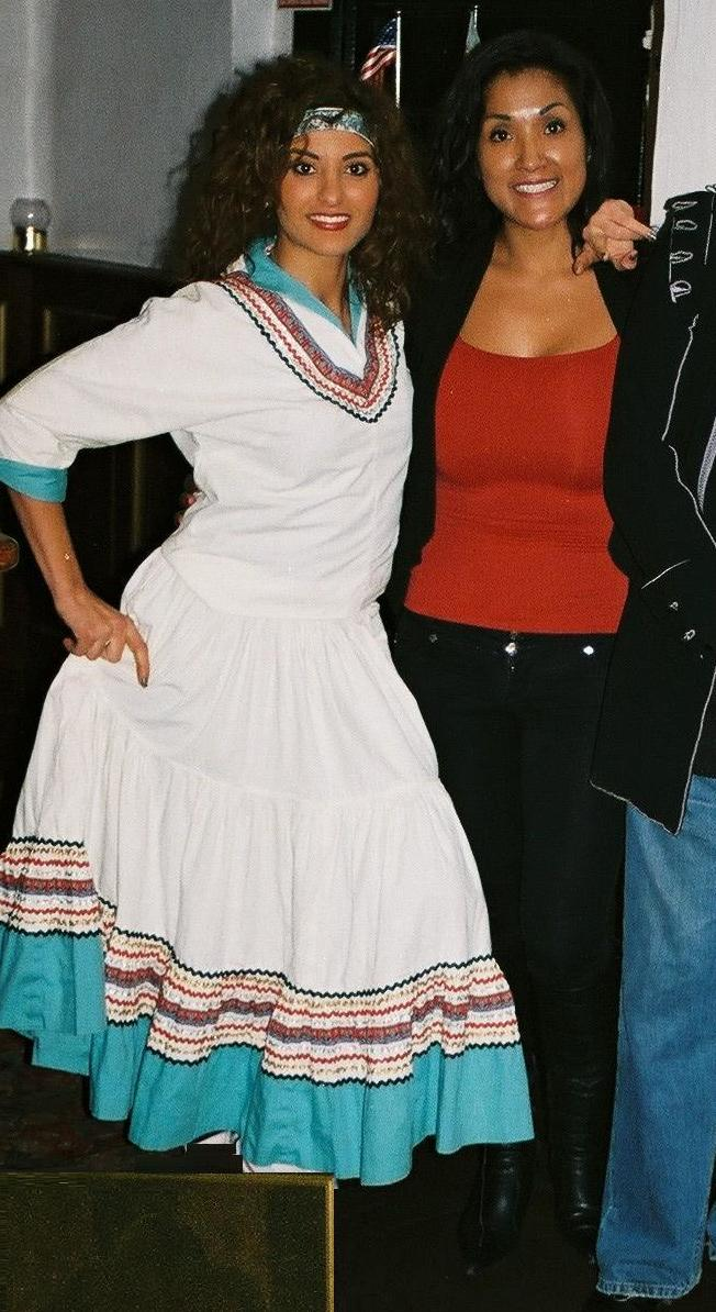 Birgit Ridderstedt centenary dinner guests wearing (left) Ridderstedt's squaw dress from South Dakota Place: Lillienhoff Palace, Stockholm, Sweden